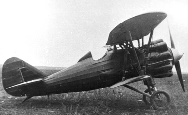 Soviet Polikarpov I-5 fighter (produced between 1931-1934)